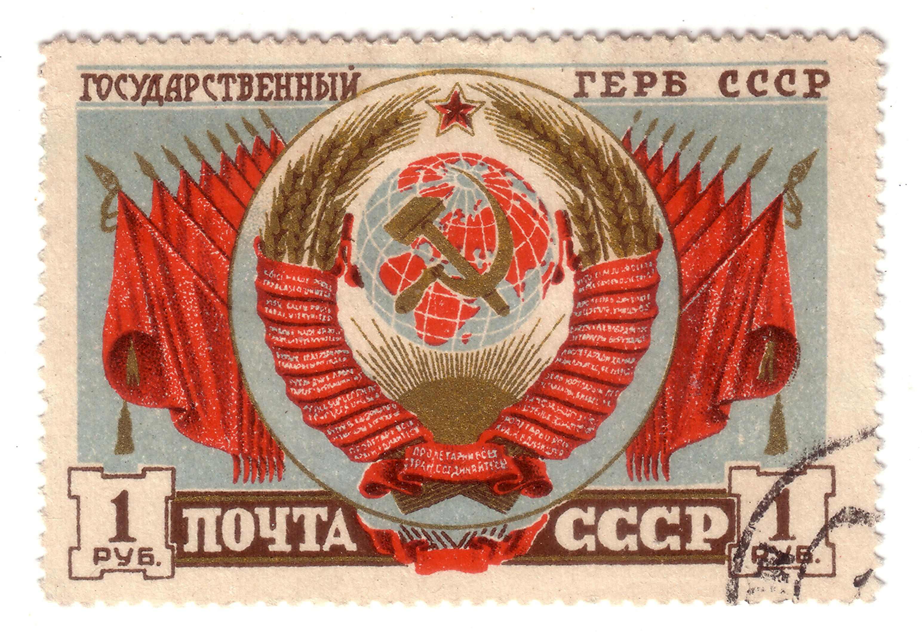 Stamp of the Soviet Union, 1947. Coat of arms of the Soviet Union. CPA #1130.